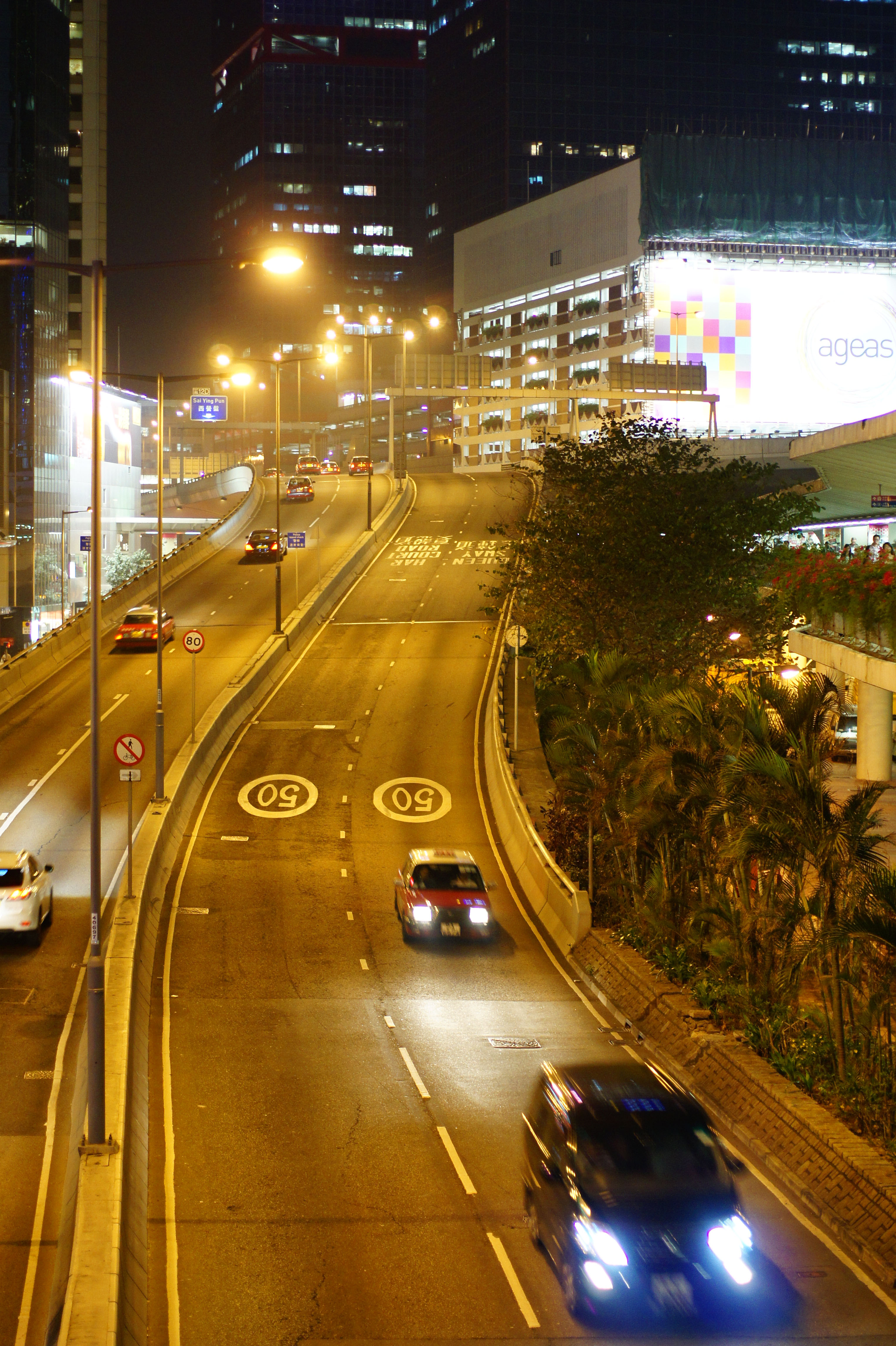 Rumsey Street Flyover